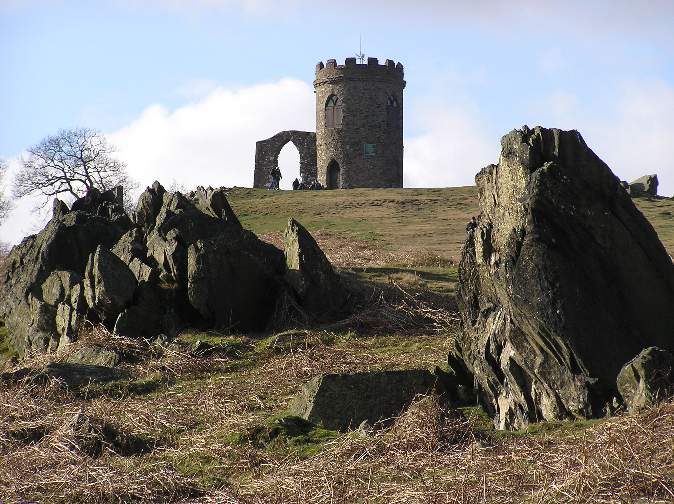 Folly of Old John in Bradgate Park, Leicestershire.